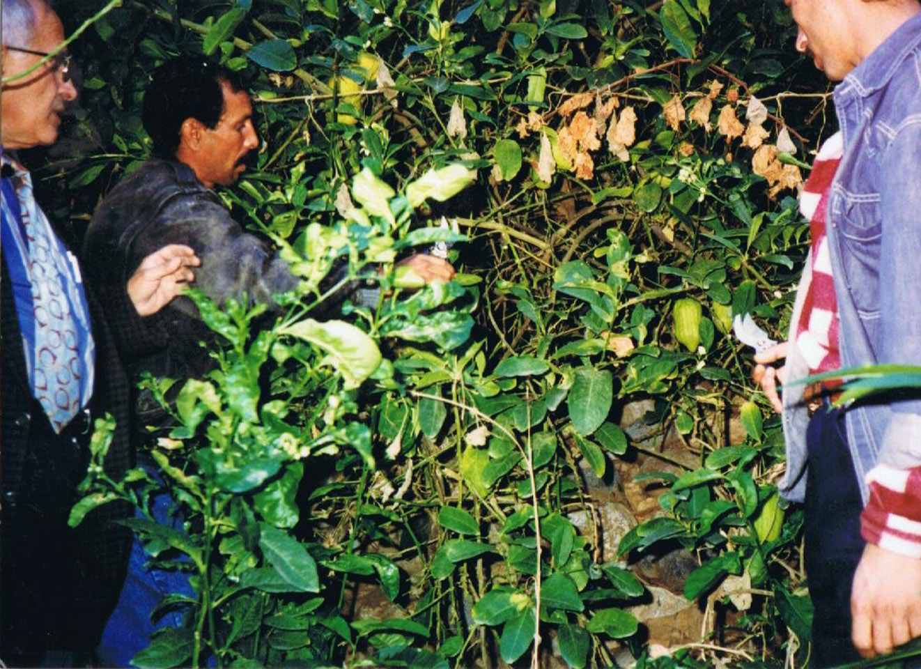 The berbers at their etrog plantation